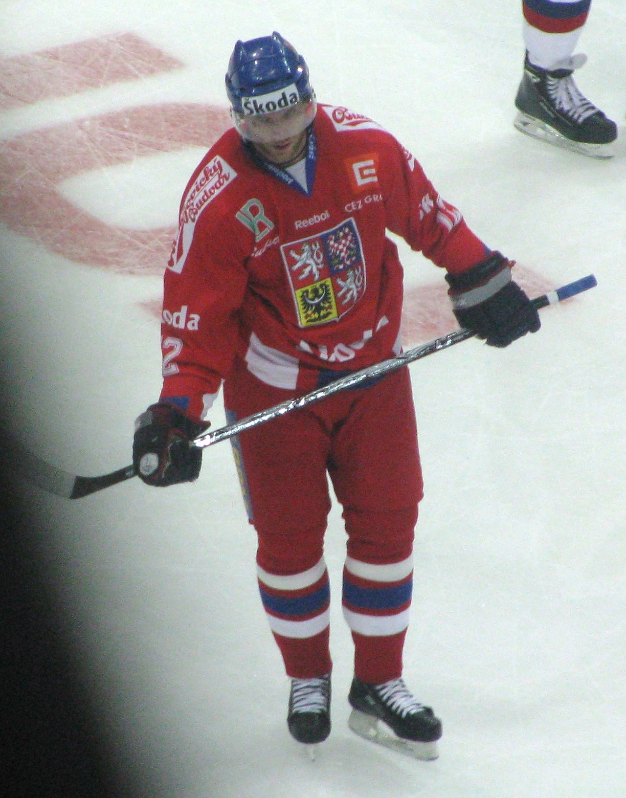 Jiri Novotny